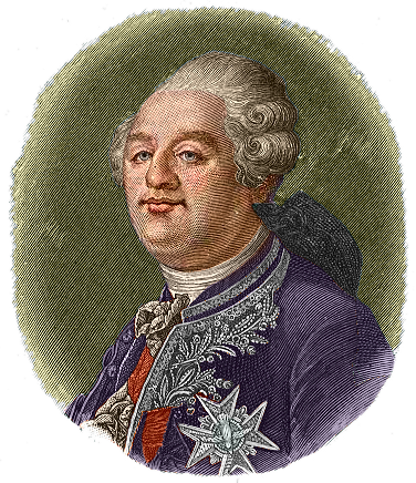 Louis XVI of France (coloured version)